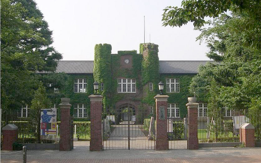 The main entrance of Rikkyo University Ikebukuro campus